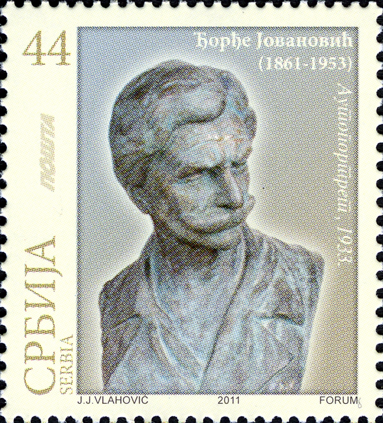 Art - 150 Years since the Birth of Dorde Jovanovic